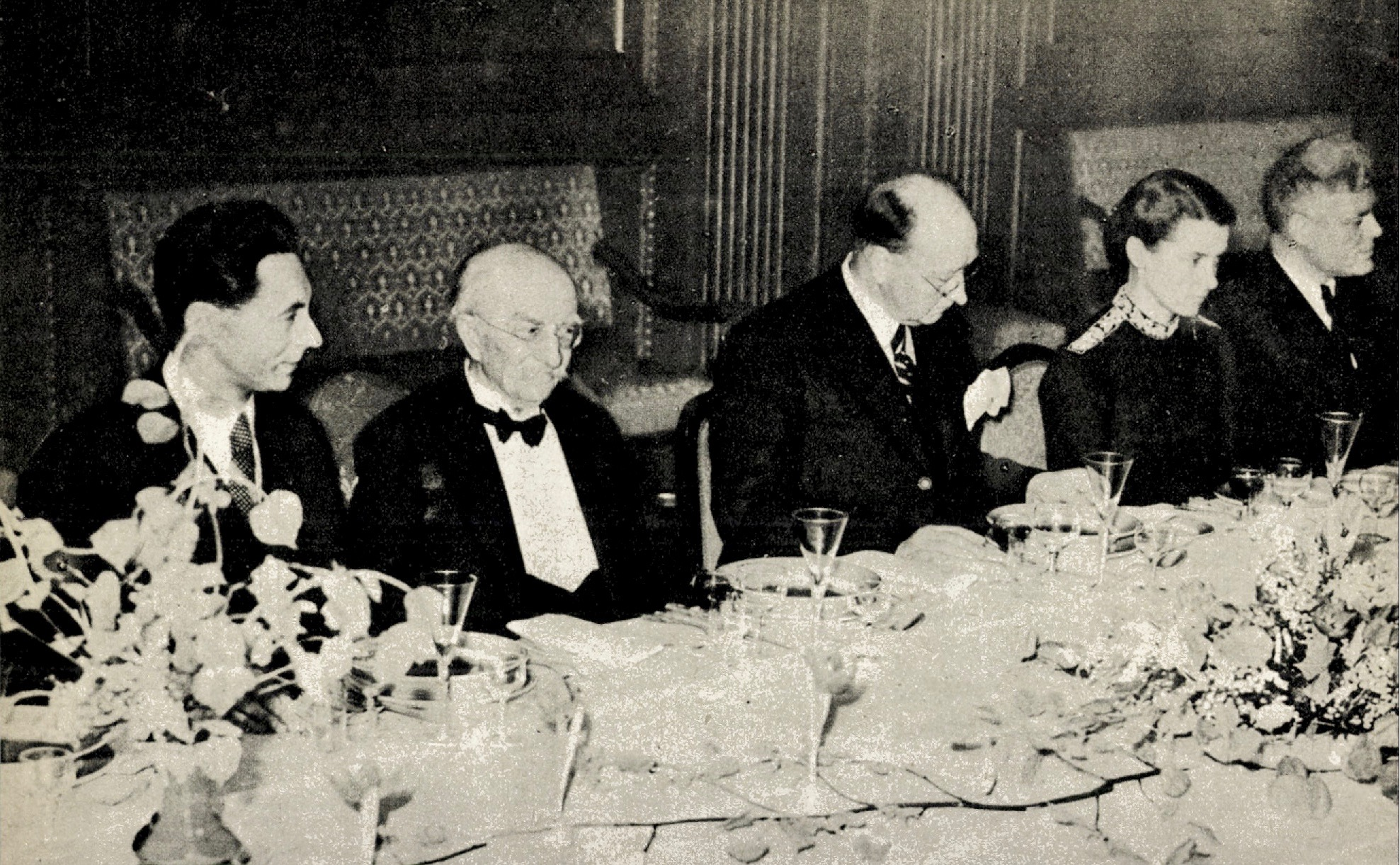 Photo from "Liv i kamp for Norge" ("Marie og Gulbrand Lunde Et liv i kamp for Norge"), a memorial book about Norwegian couple Marie (1907–1942) and Gulbrand Lunde (politician, 1901–1942), published by "Rikspropagandaledelsen" (propaganda department of Nasjonal Samling, Norwegian fascist party 1933–1945) and "Blix forlag" in Oslo, Norway 1942. The photo shows from left to right: Gulbrand Lunde, the Norwegian composers Christian Sinding and Arne Eggen, Marie Lunde, and Minister of Police Jonas Lie. Cropped JPG from PDF (a low resolution digitized version) of the book downloaded from National Library of Norway's site NO-OsNB (999824600824702202)